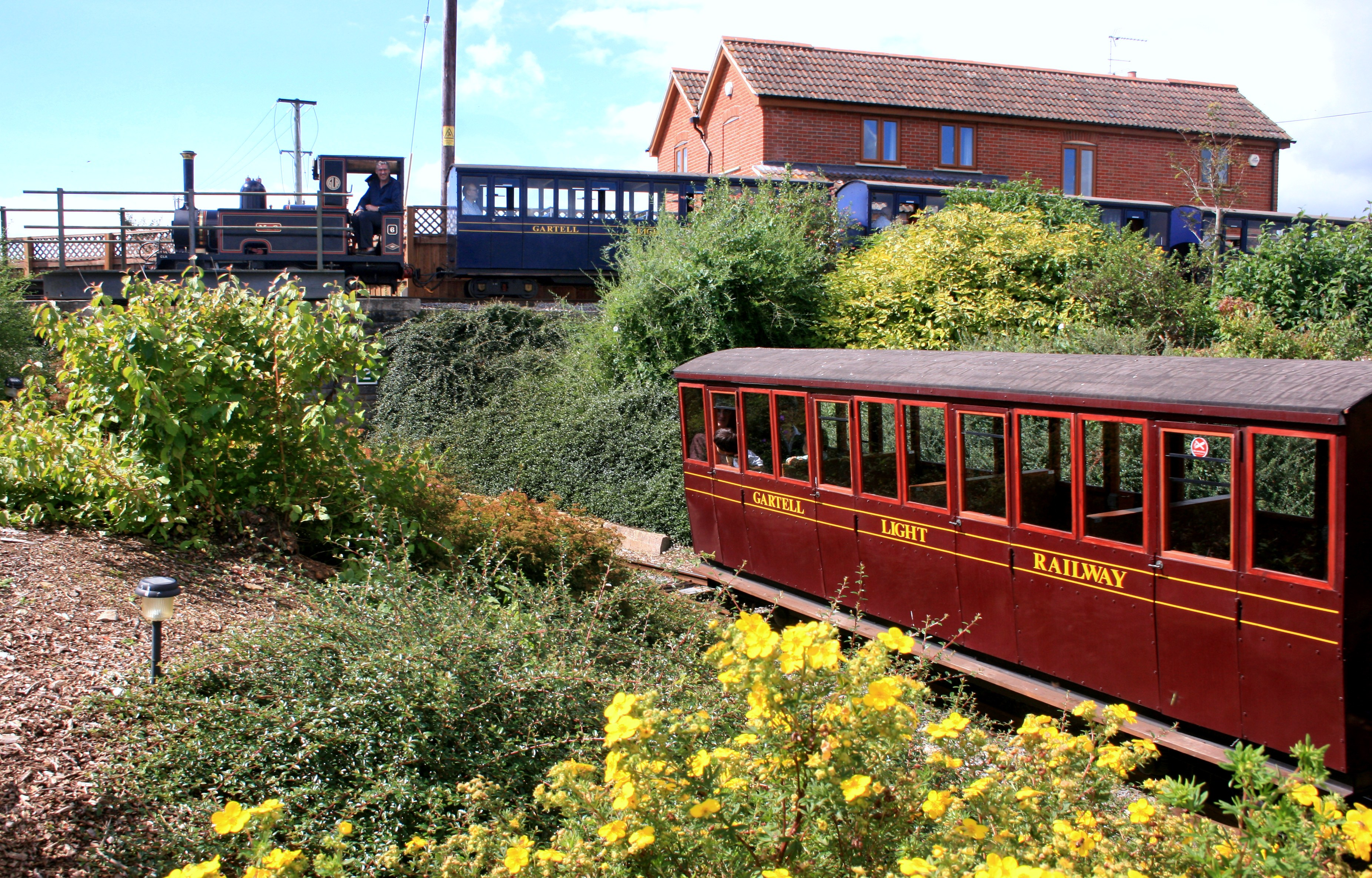 Light Railway Crossover. The Gartell Light Railway runs mainly along a former line closed in the 1960s, but the engine sheds etc. are a short distance away from that alignment. To get onto the main line from the yard, trains make a tight turn under this bridge and up an incline on the other side of the embankment. This means you can take photographs of two trains one above the other, as shown here.